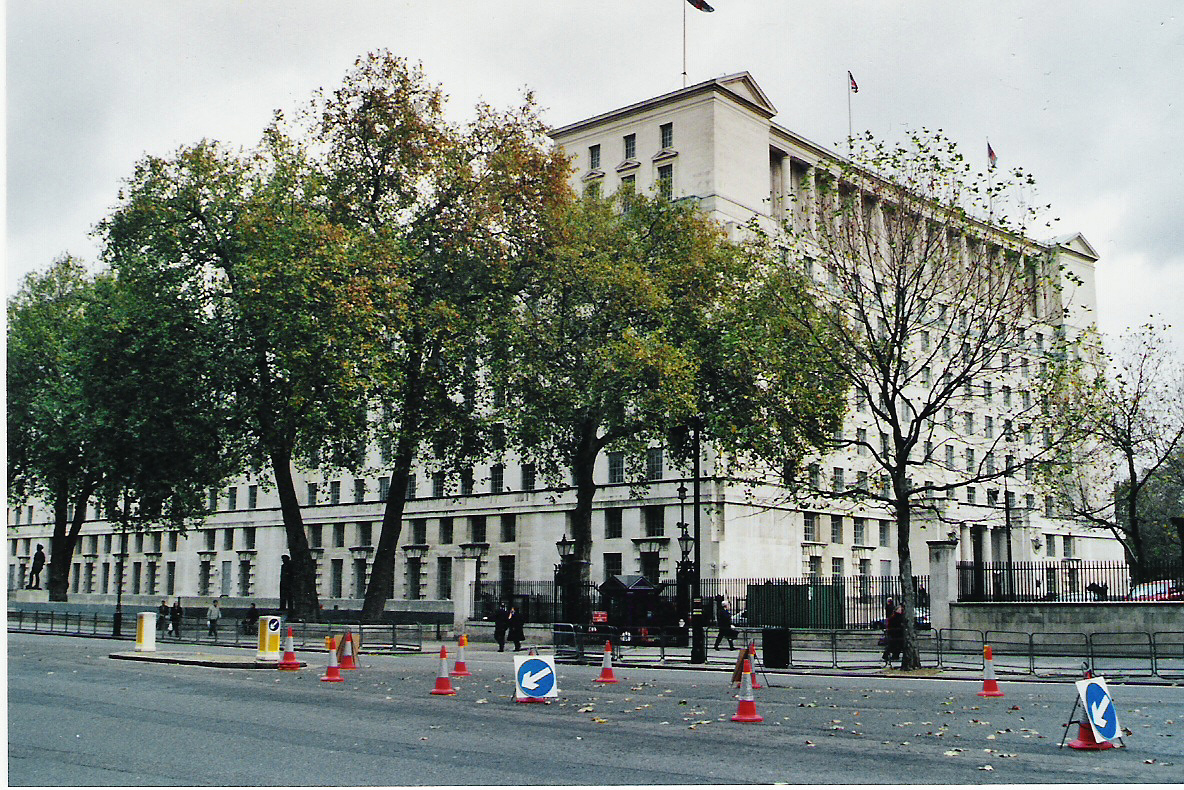 Ministry of Defence on Whitehall, London, photo Chris Nyborg, november 2005